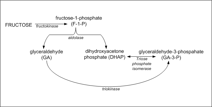 Fructose to trioses pathway